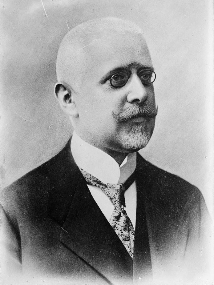 Austrian politician and chancellor Johannes Schober.